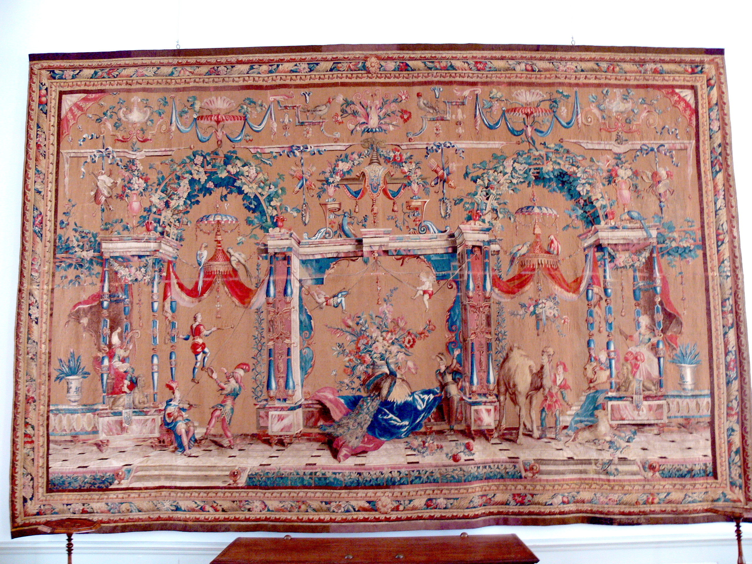 Kronborg castle. Tapestry ( 1700 ) from Beauvais made by Jean Behagle, showing dancers and acrobats.